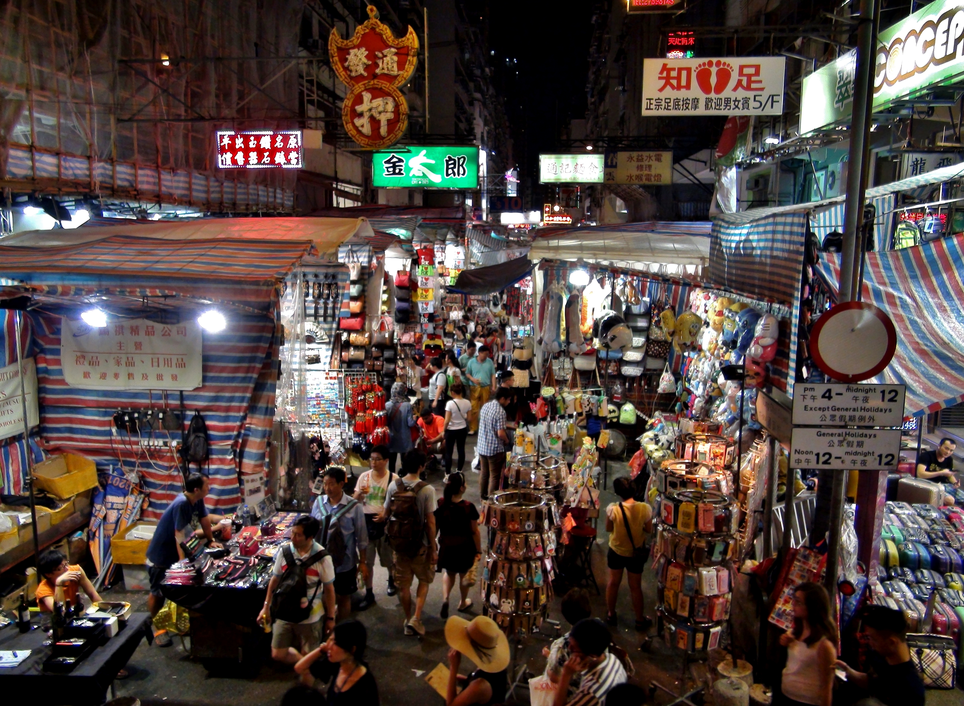 Tung Choi Street market of summer night